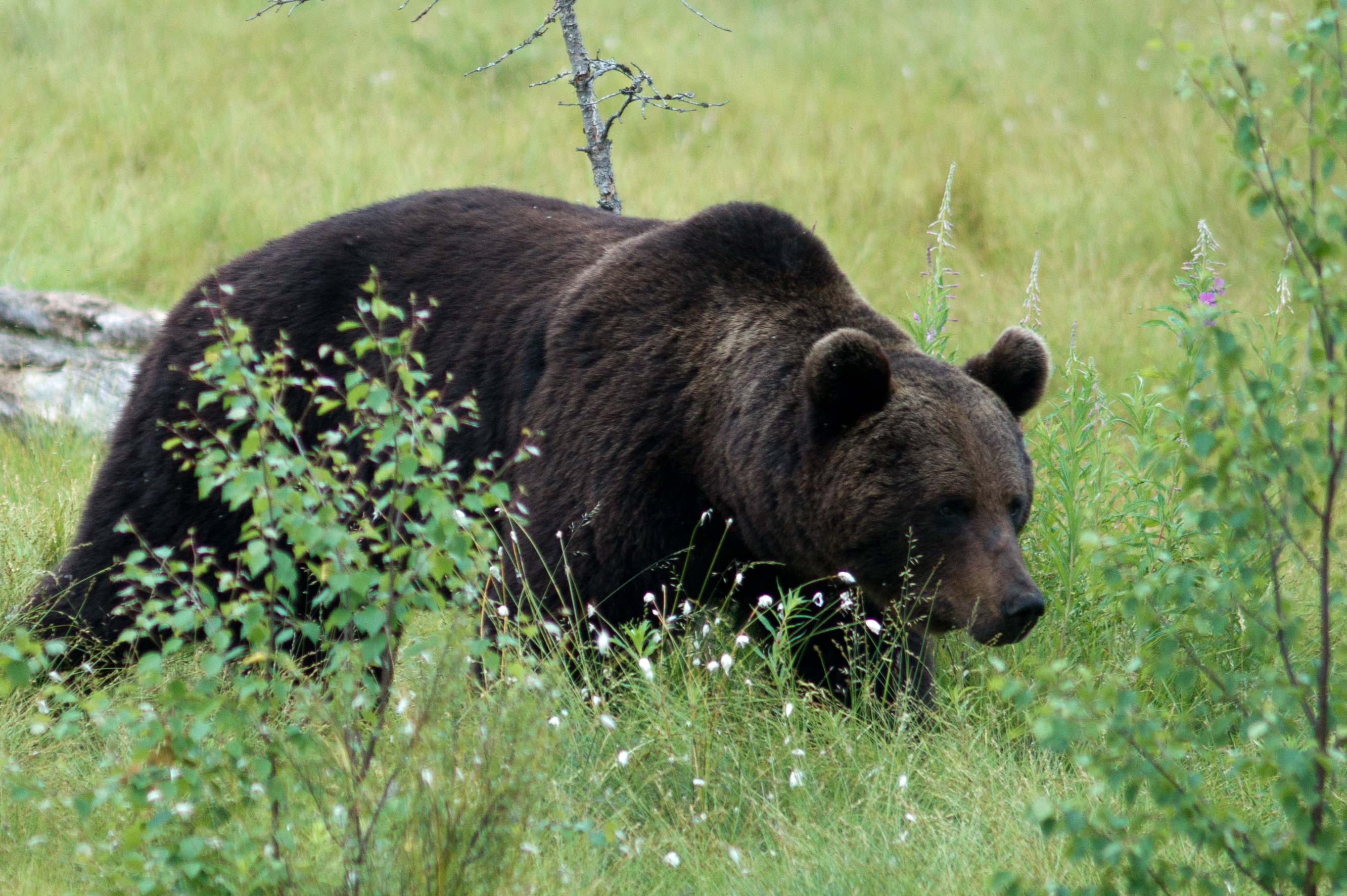 A brown bear in Finland